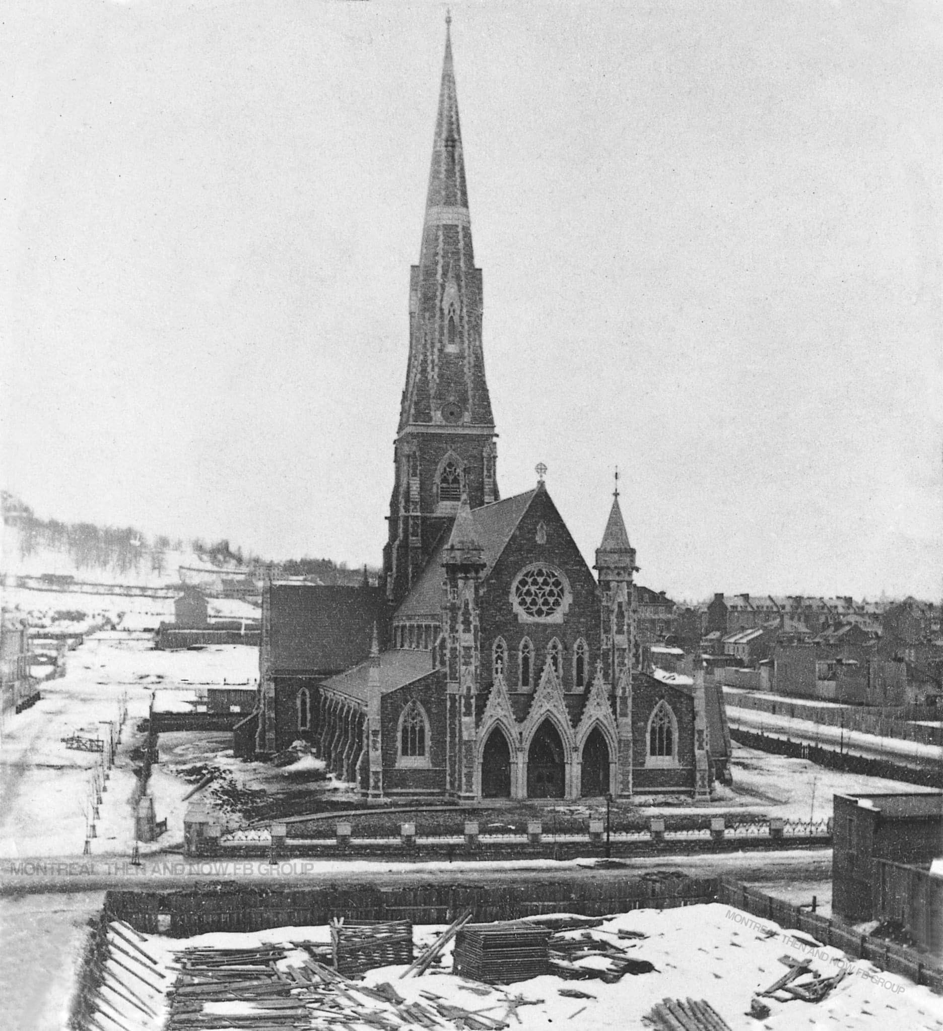 Photograph, Christ Church Cathedral, St. Catherine Street, Montreal, QC, about 1860, William Notman (1826-1891), Silver salts on paper mounted on card - Albumen process - 7.3 x 7 cm